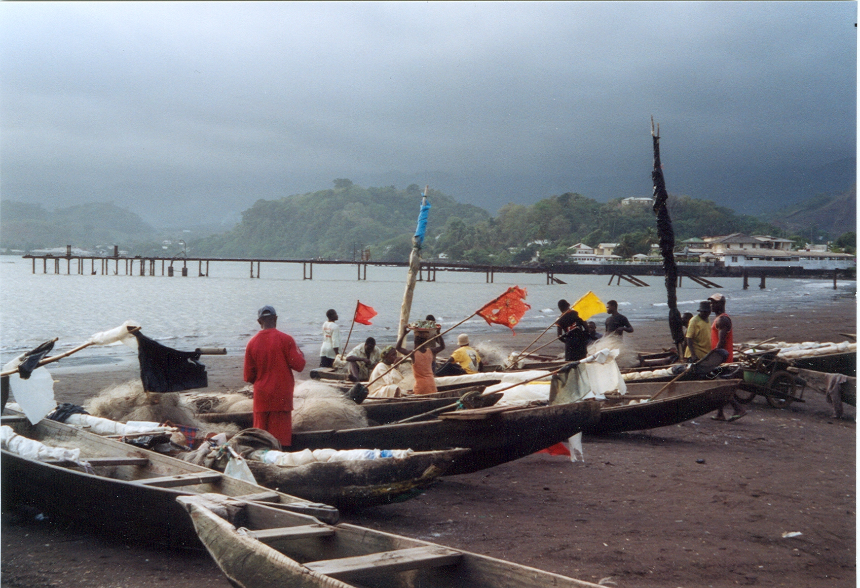 Fisherboats on the beach of Limbe, Cameroon. In the background heavy clouds surrounding the (here unvisible) Mount Cameroon.